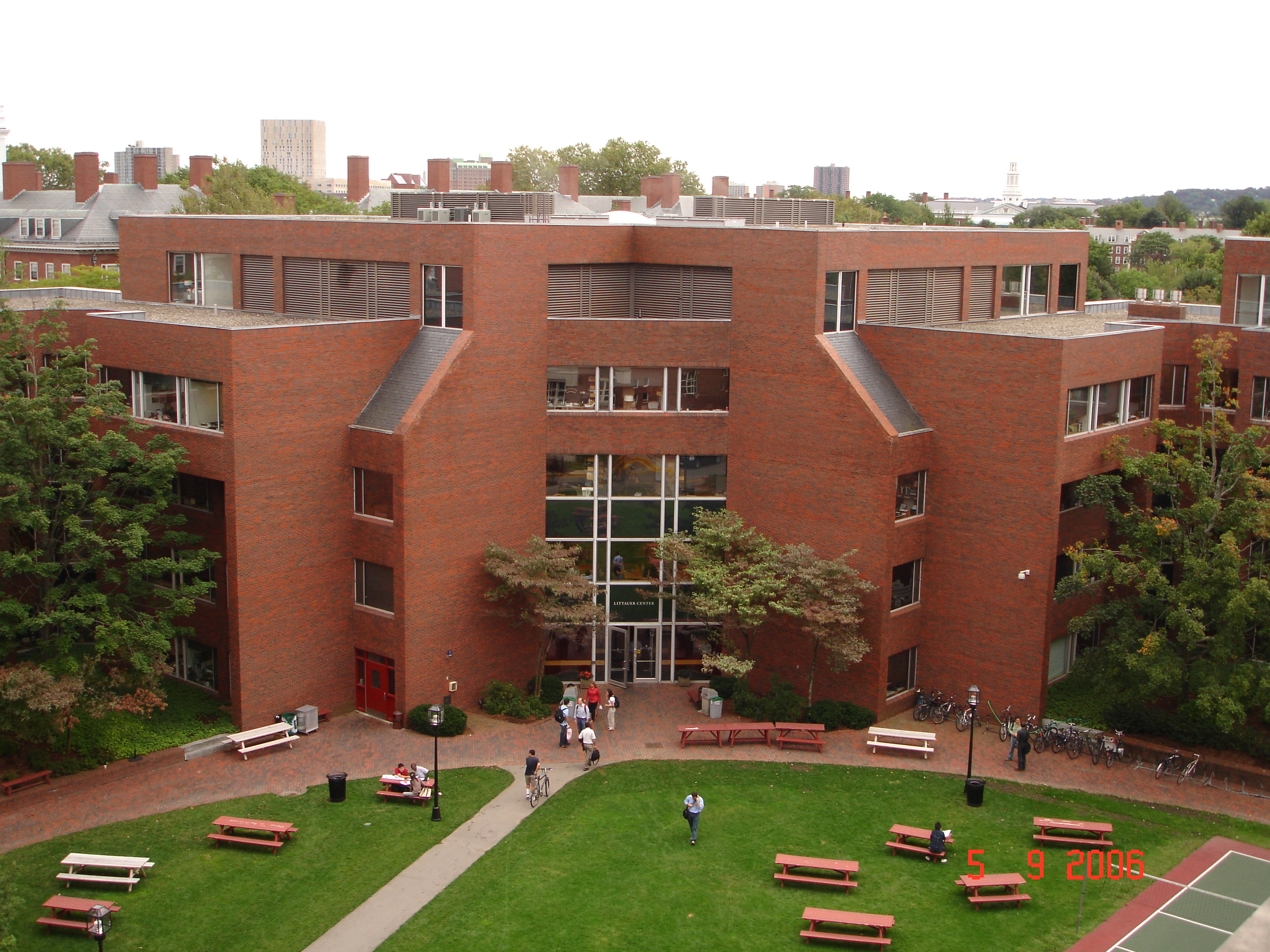 A photo of Littauer Building by Shahnaz Maqbool MPA-2007